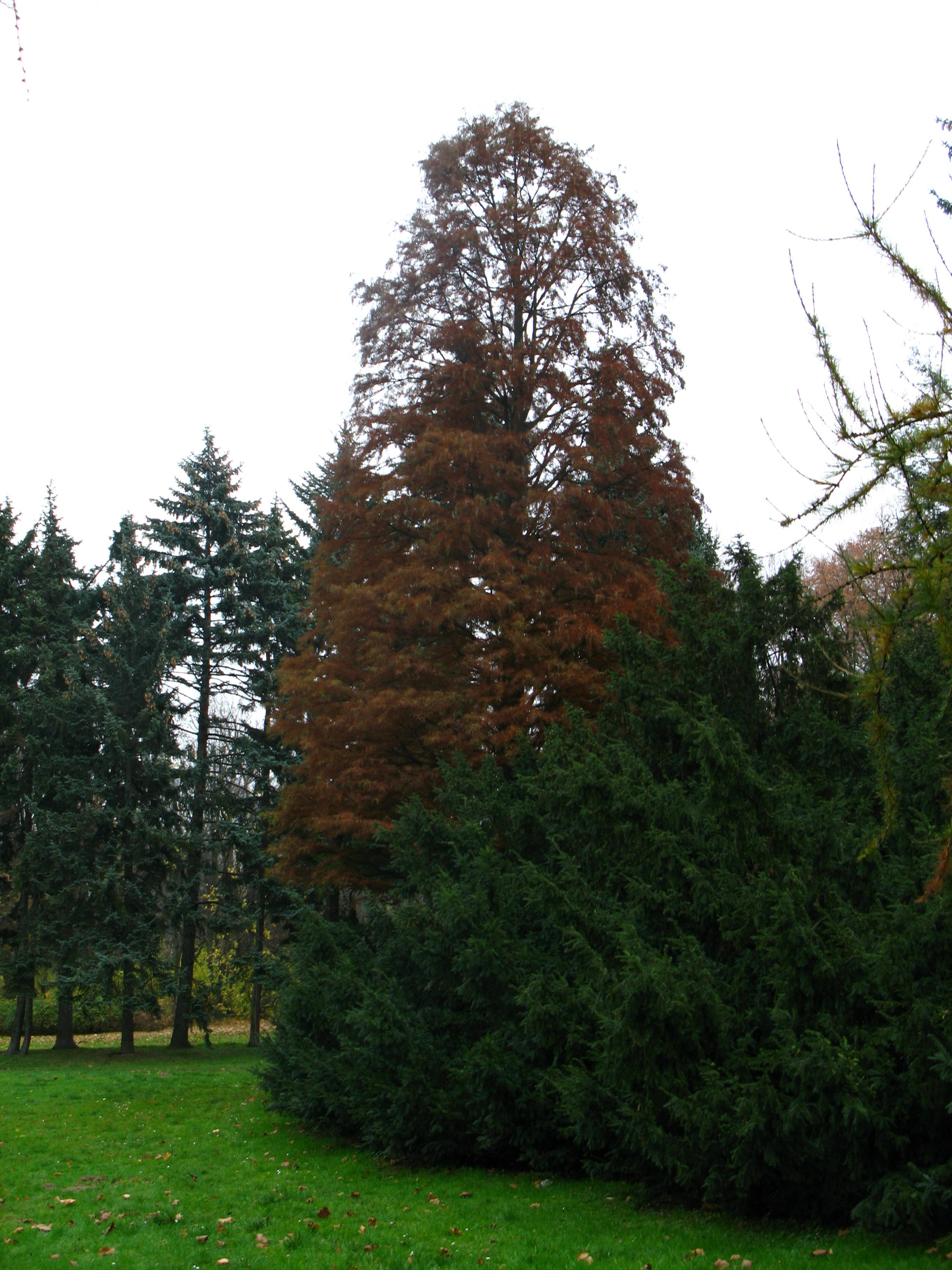 Taxodium distichum 'Fastigiatum' in Park Skaryszewski, Warsaw, Poland